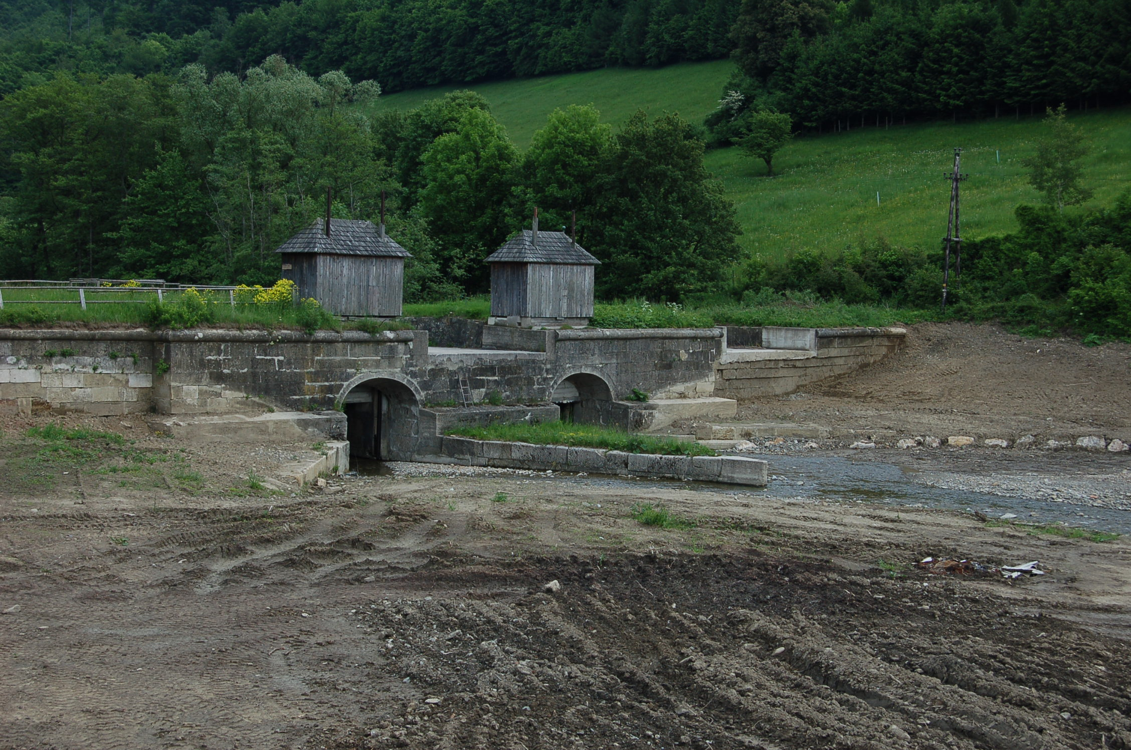 Main timber rafting dam, Schwechat river, Klausen-Leopoldsdorf, Lower Austria